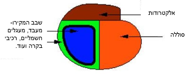 דיאגרמת קוצב לב